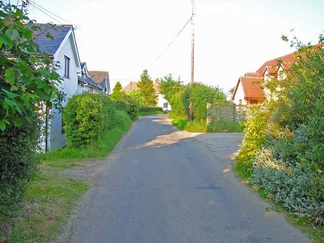 Kersey Tye. A hamlet in the Suffolk countryside.